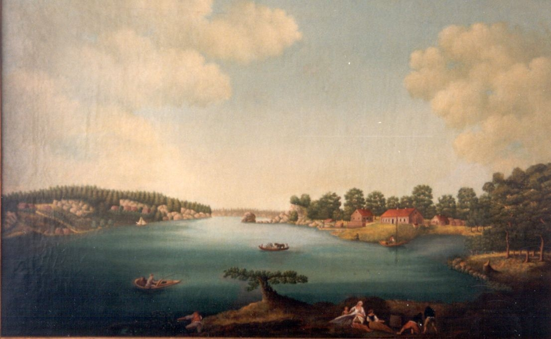 View of Ropsten looking south with Ropstens Gård, Stockholm to the right and the island of Lidingö to the left. The large rock - "Roparstenen" - in the center of the picture has named the place.